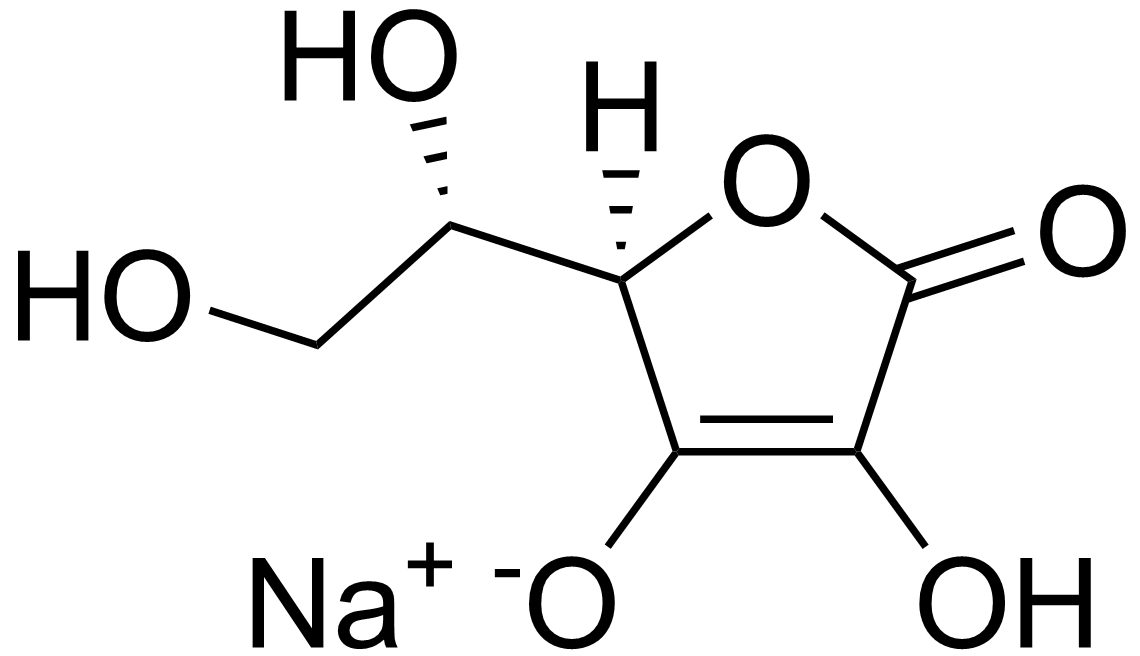 Chemical structure of (+)-sodium L-ascorbate